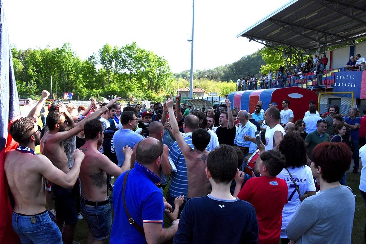 Festa allo stadio d'Albertas di Gozzano per la prima promozione in Serie C della squadra di calcio comunale